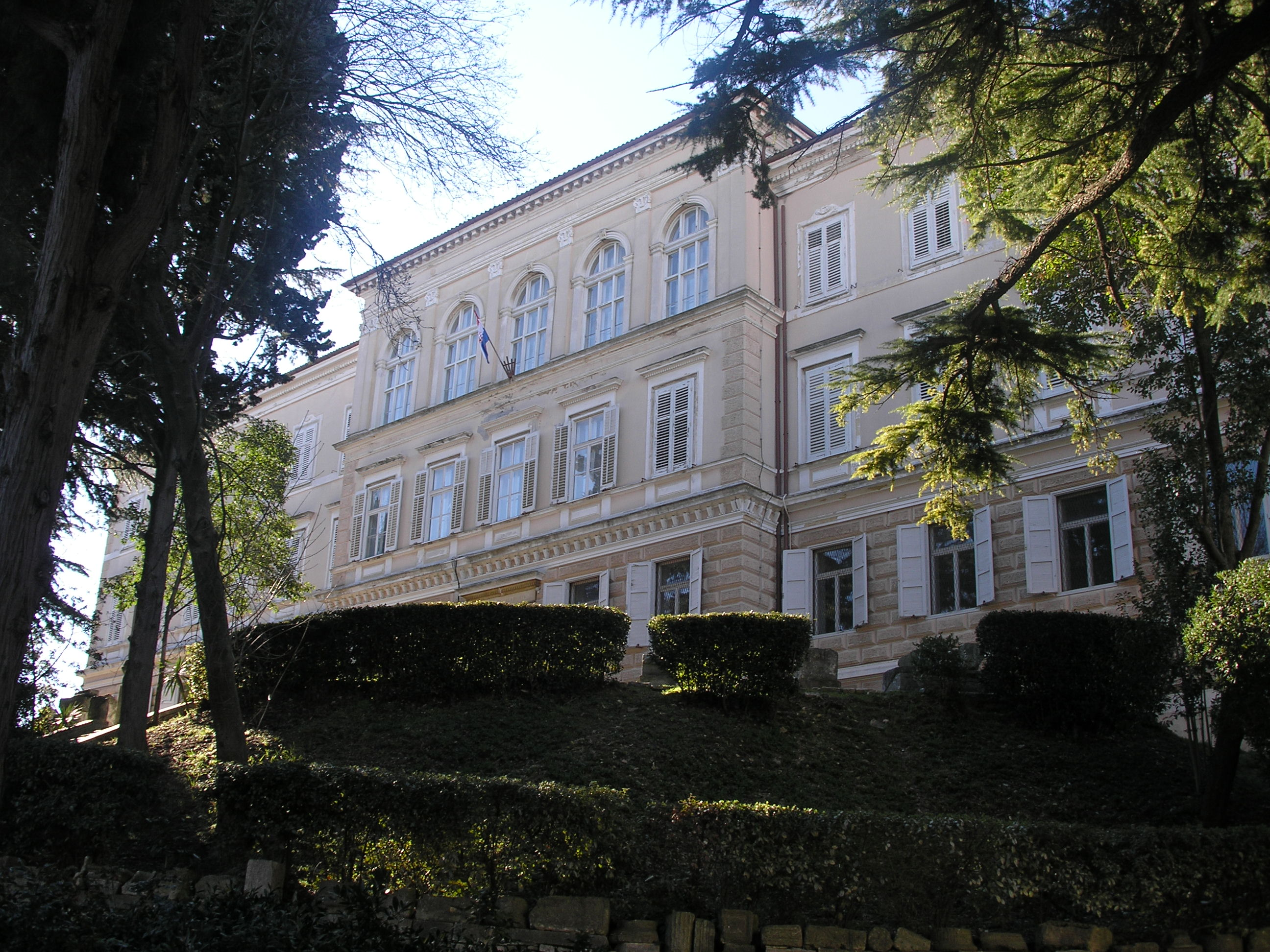 Pula archaeological museum, built in 1890 as k.k. Gymnasium Pola)